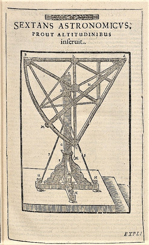 Original image description from the Deutsche Fotothek Astronomie & Messinstrument